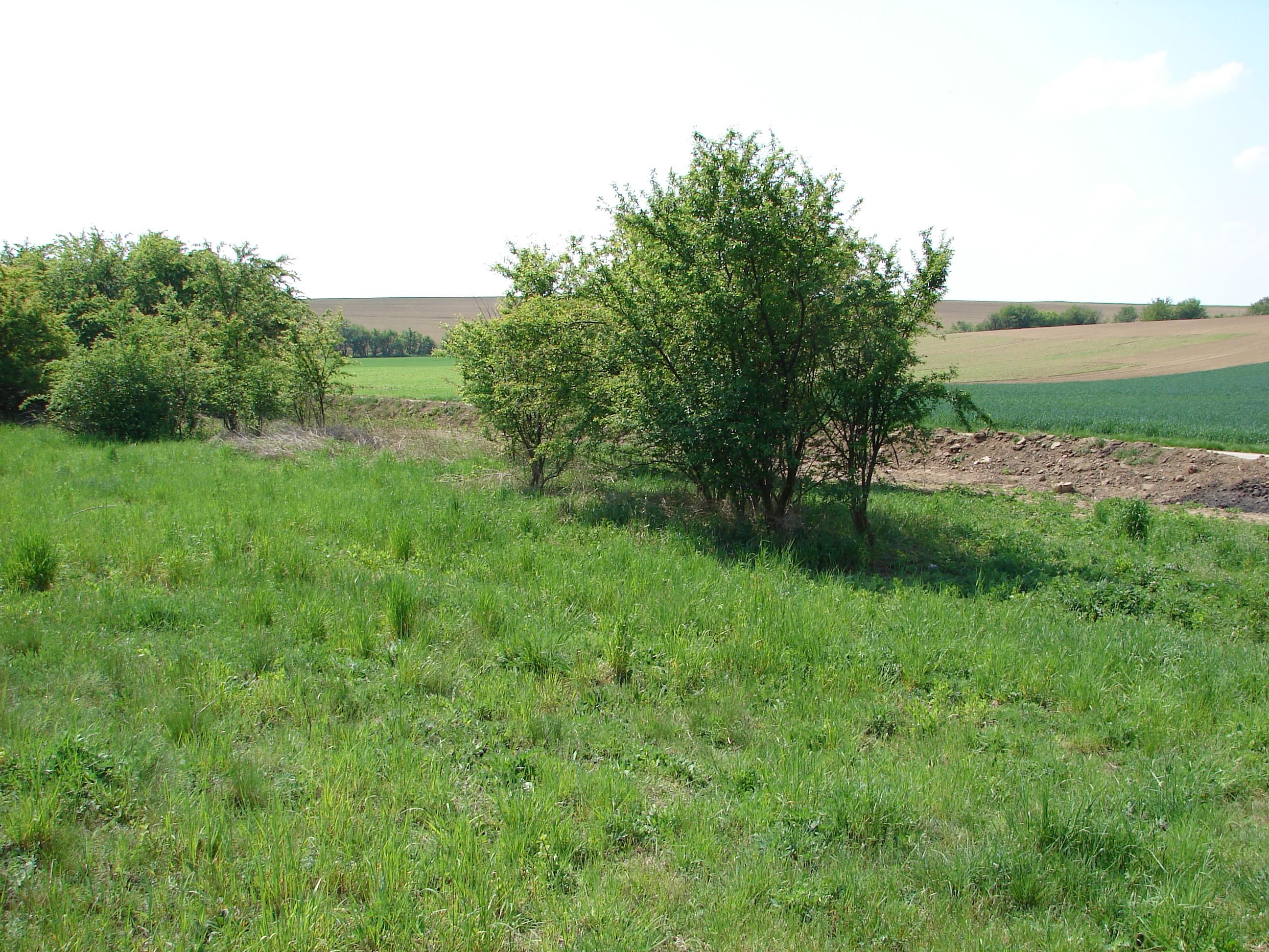 Natural monument Bezourek in Brno-venkov District, Czech republic.